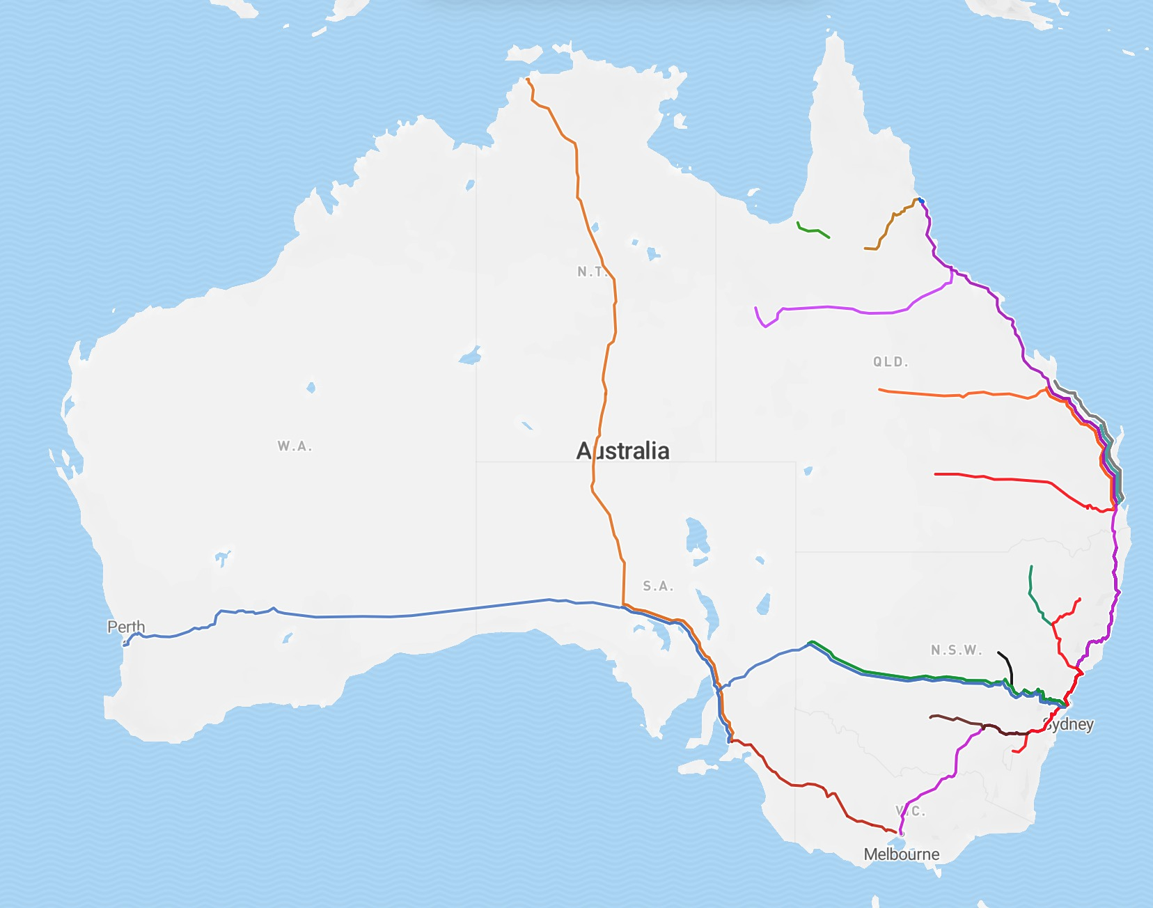 Routes of non-urban passenger trains in Australia as of August 2018